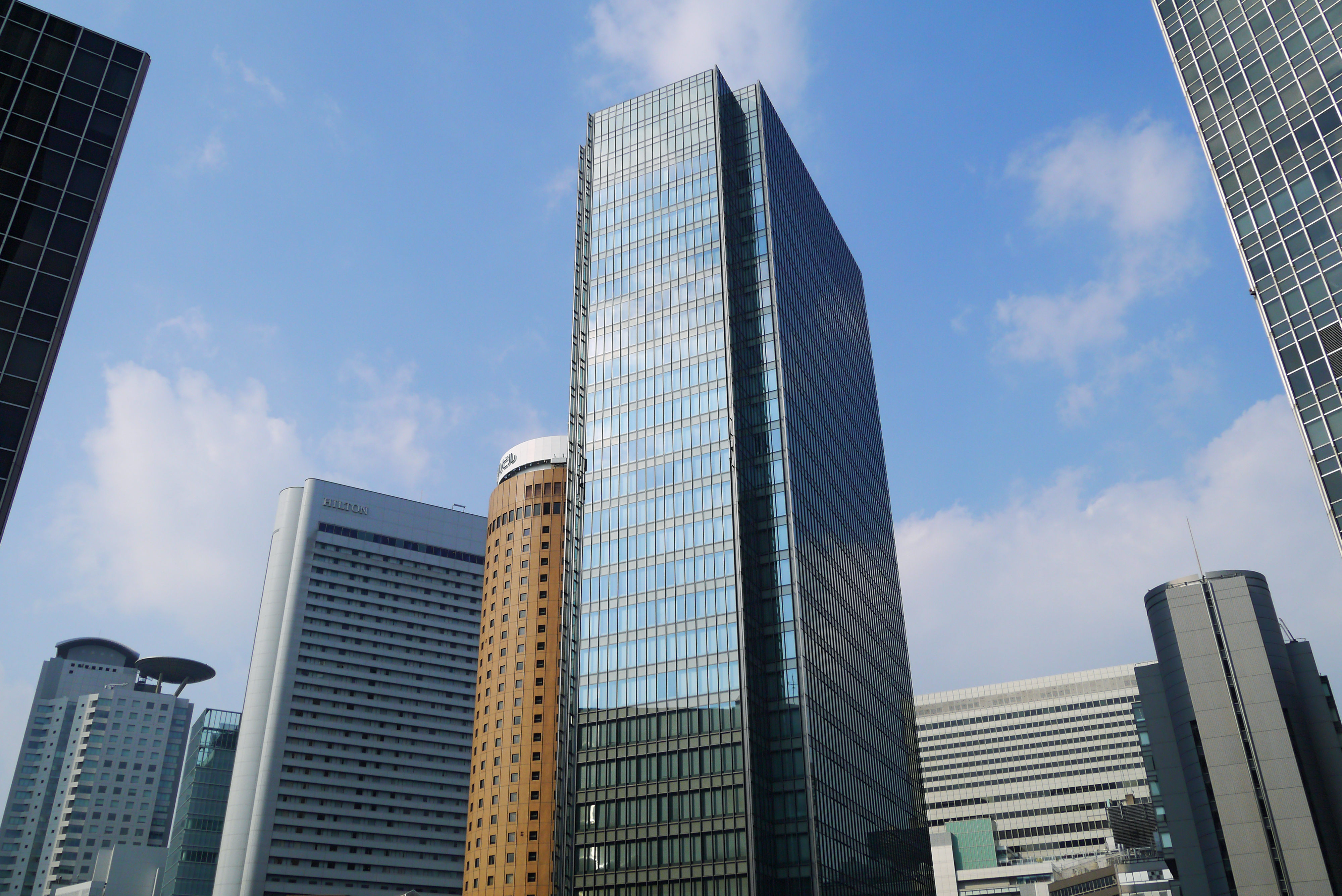 Diamond-District (ダイヤモンド地区), Umeda, Osaka, Osaka prefecture, Japan